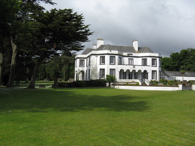 Glenmona Resource Centre, Cushendun